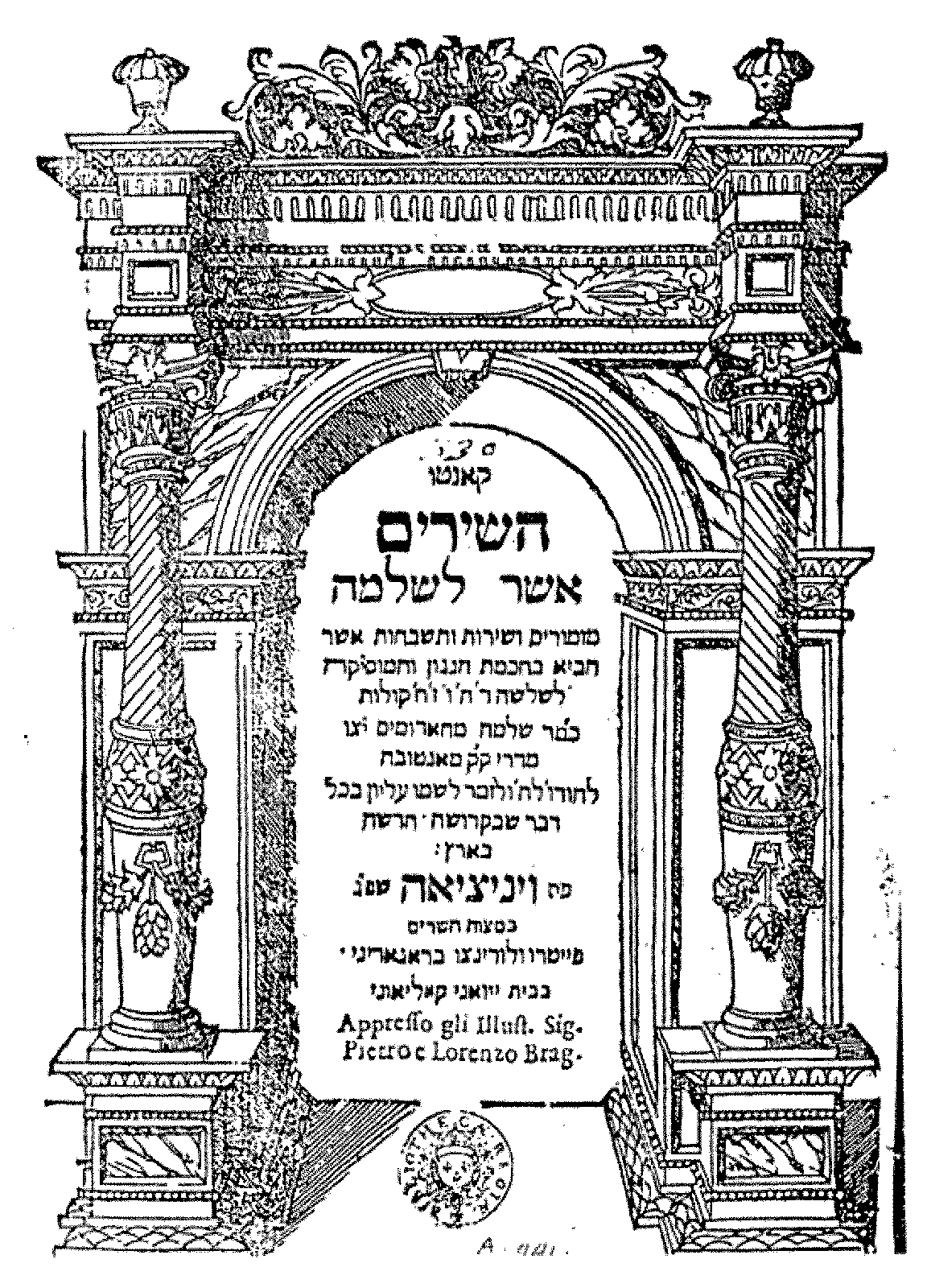 Title page of the first edition of Hashirim asher leSholomon by Salamone Rossi (Venice, 1623)